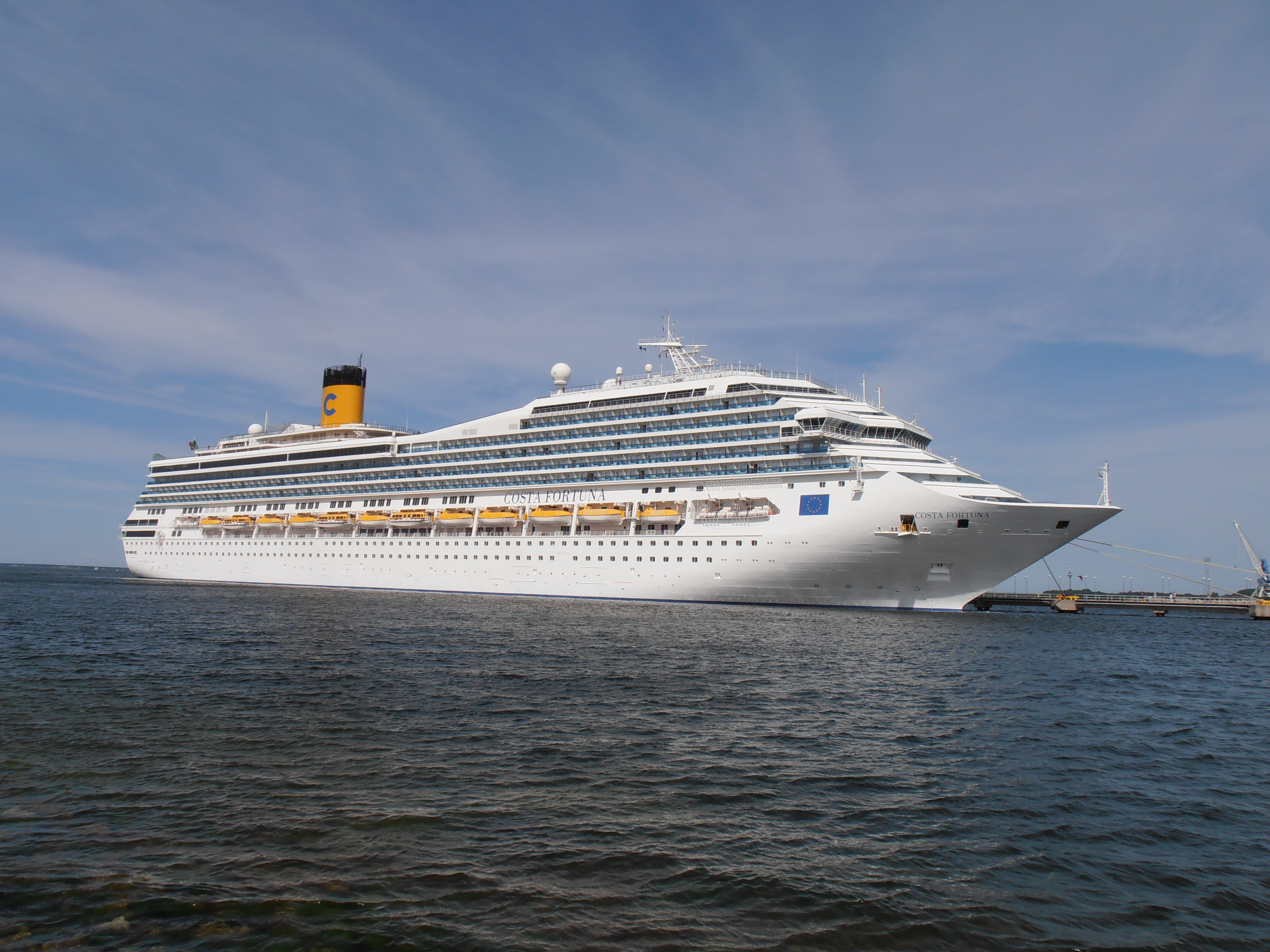 Costa Fortuna in Tallinn on 4 July 2012